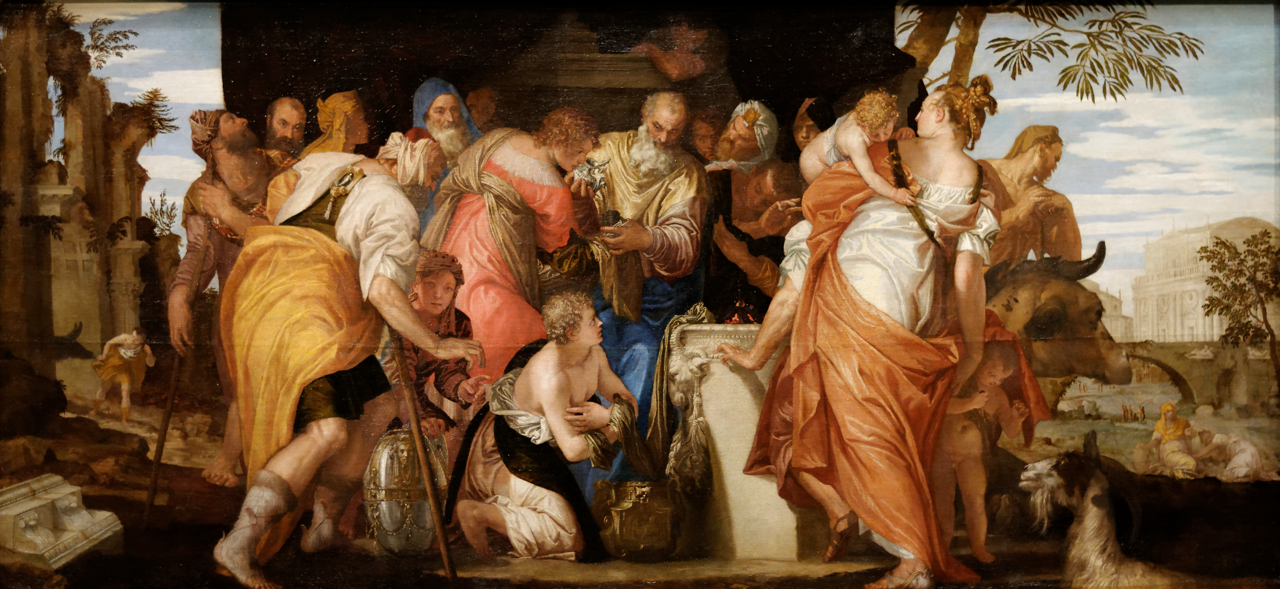 Scene from the Old Testament when the young shepherd David is anointed by the prophet Samuel to the future King of Israel. David is arranged among other people and landscape